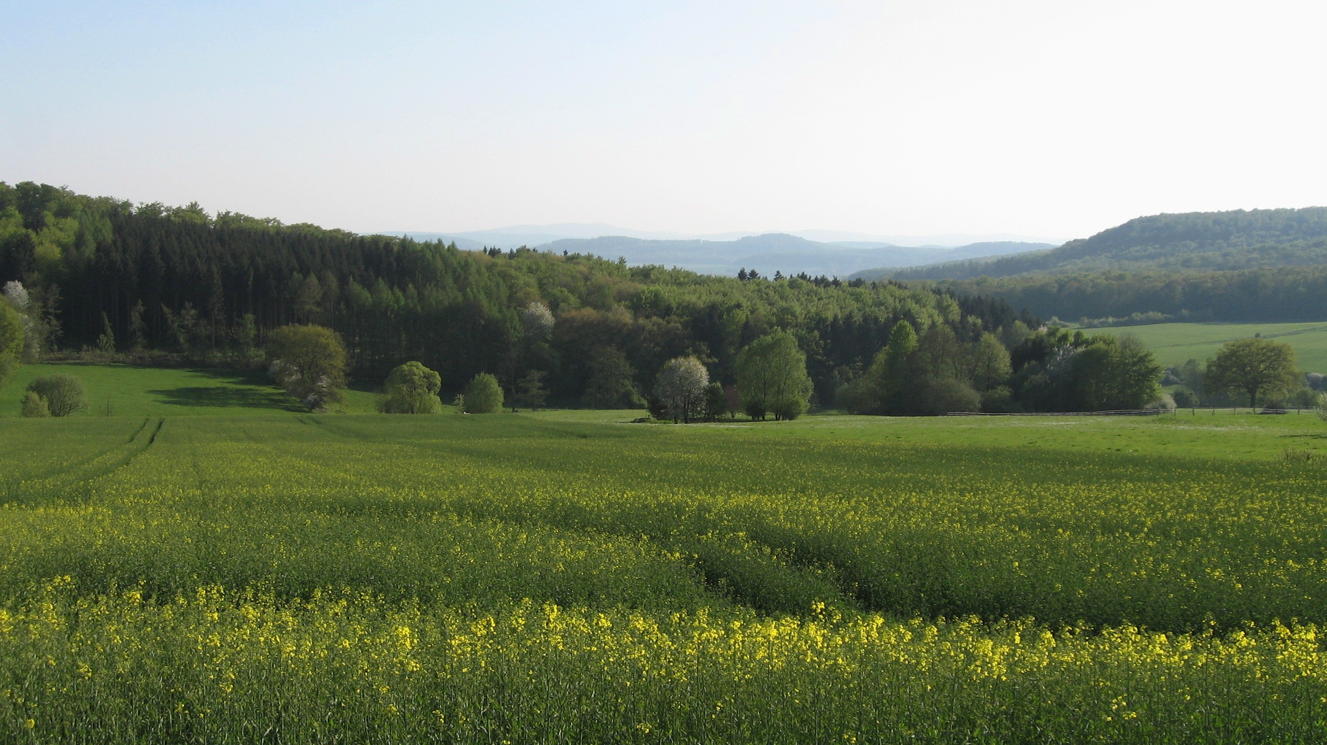 Germany - Hesse landscape near Elmshagen